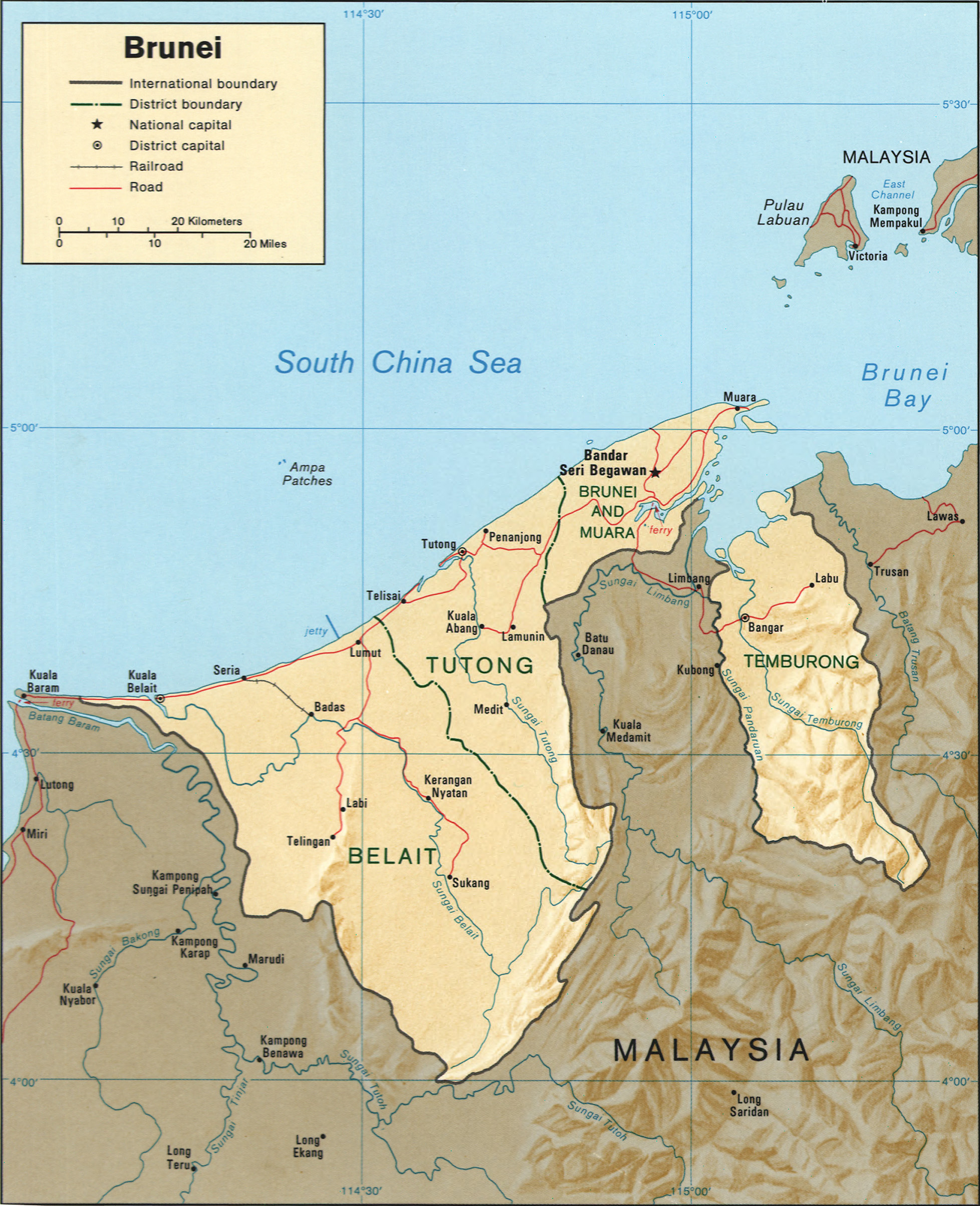 Relief map of Brunei, Equirectangular projection. Geographic limits of the map: N: 5°00' N S: 4°15' N W: 114°15' E E: 115°15' E